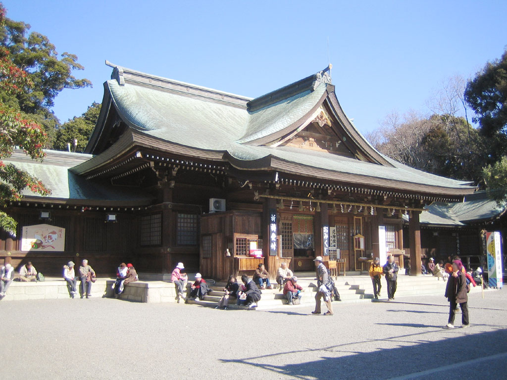 Toga Shrine (砥鹿神社), in Aichi, Japan